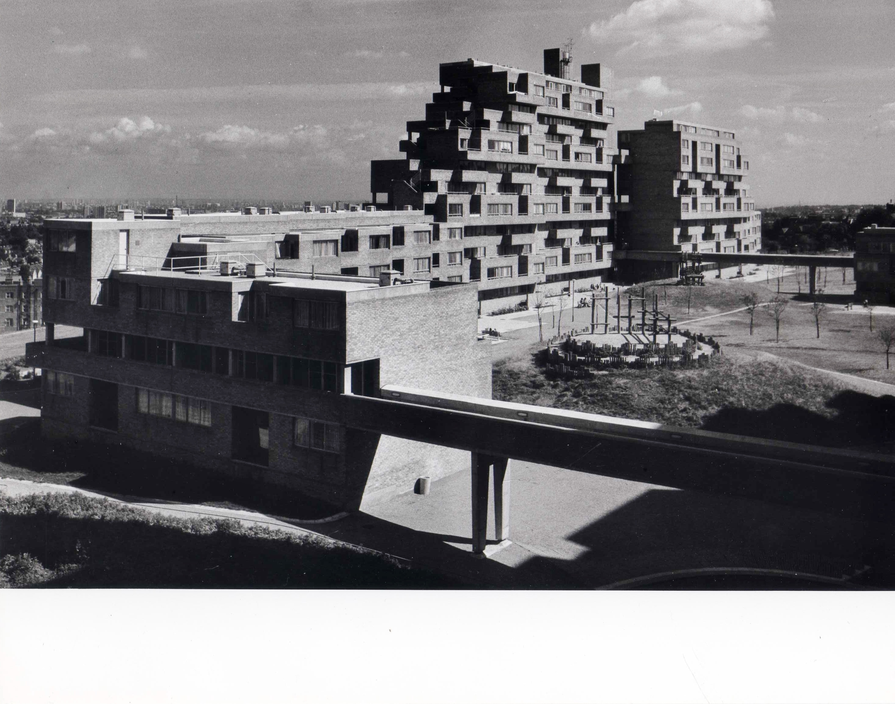 Dawsons Heights, 1973, Looking North into the central space. Photographer, Robert Kirkman FSAI.